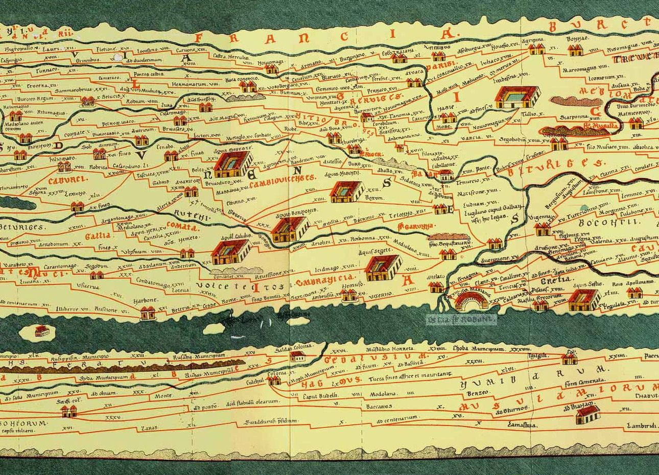 A derivative work of File:TabulaPeutingeriana.jpg showing Francia at the top